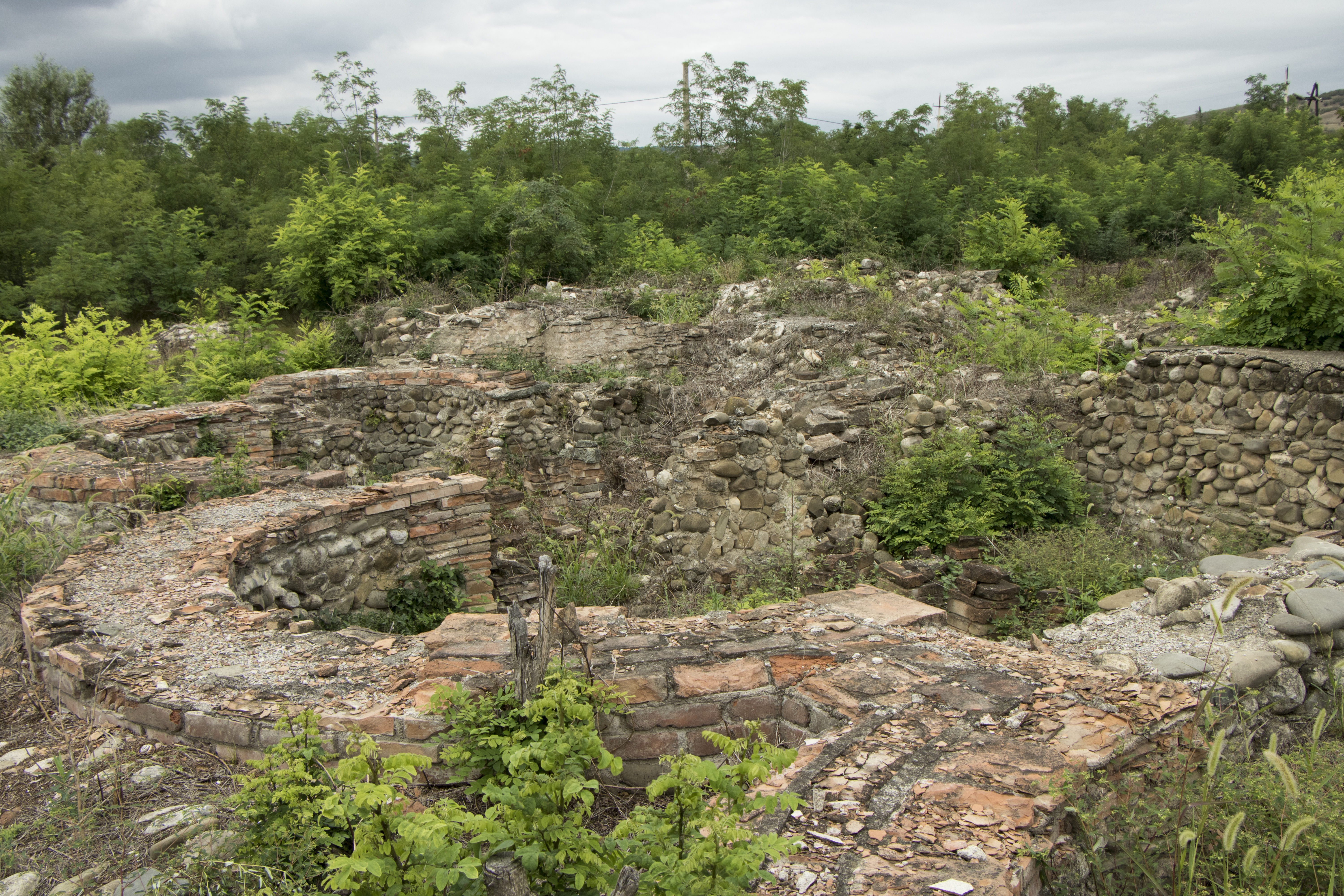 Dzalisi - small pool